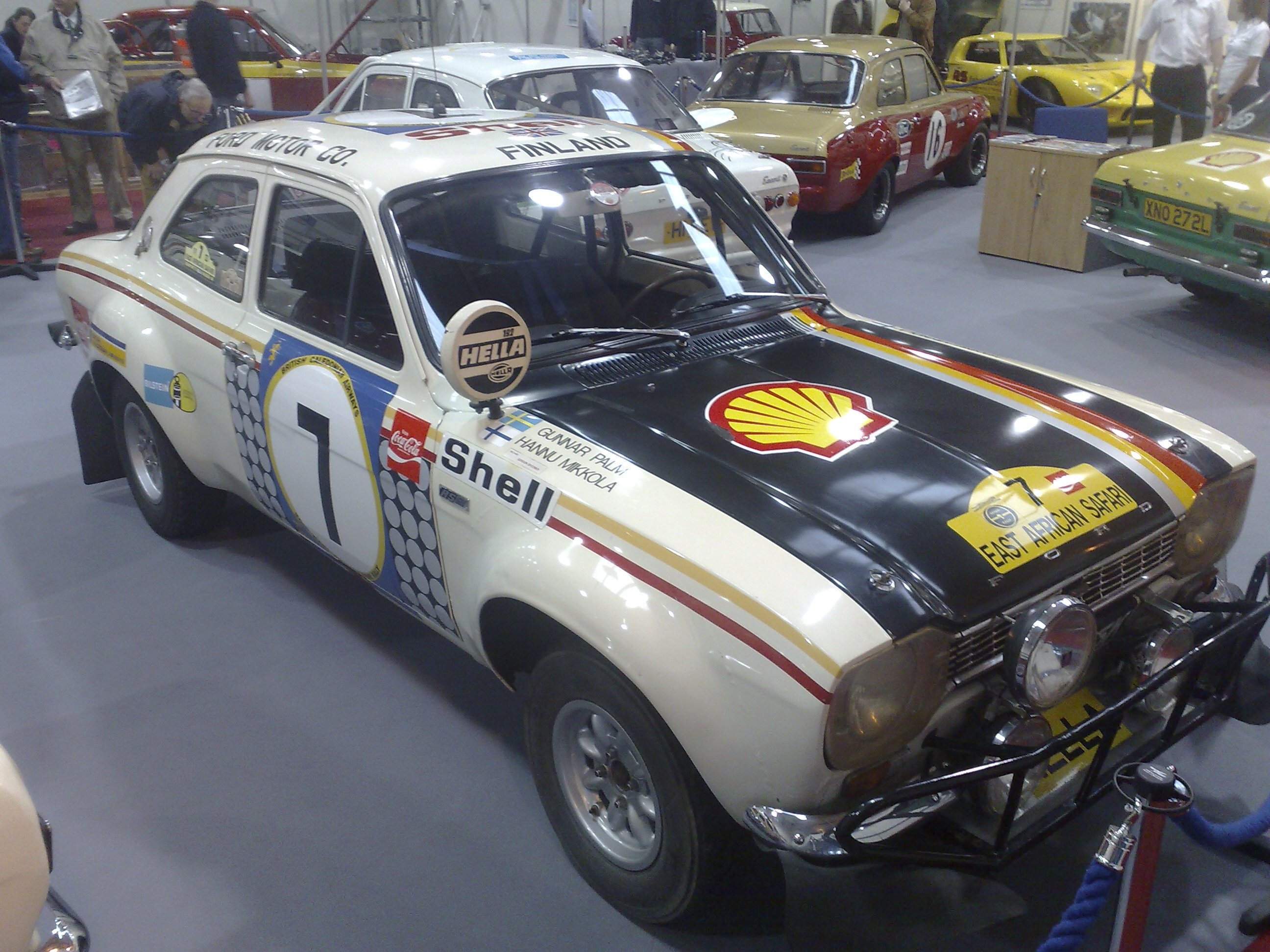 Hannu Mikkola's Ford Escort RS1600, winner of the 1972 East Africa Safari Rally